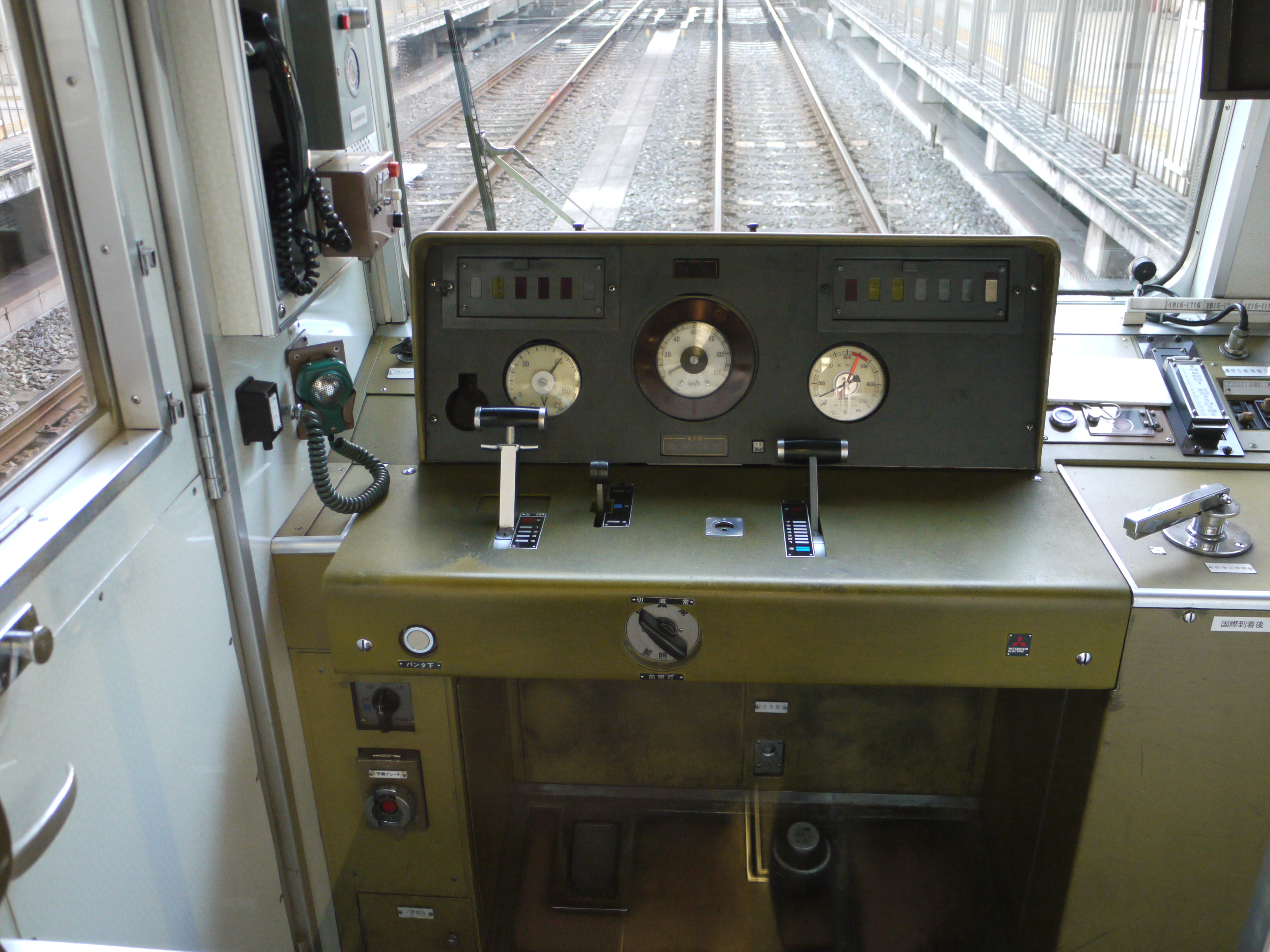 Kyoto Subway 10 series driver's cabin